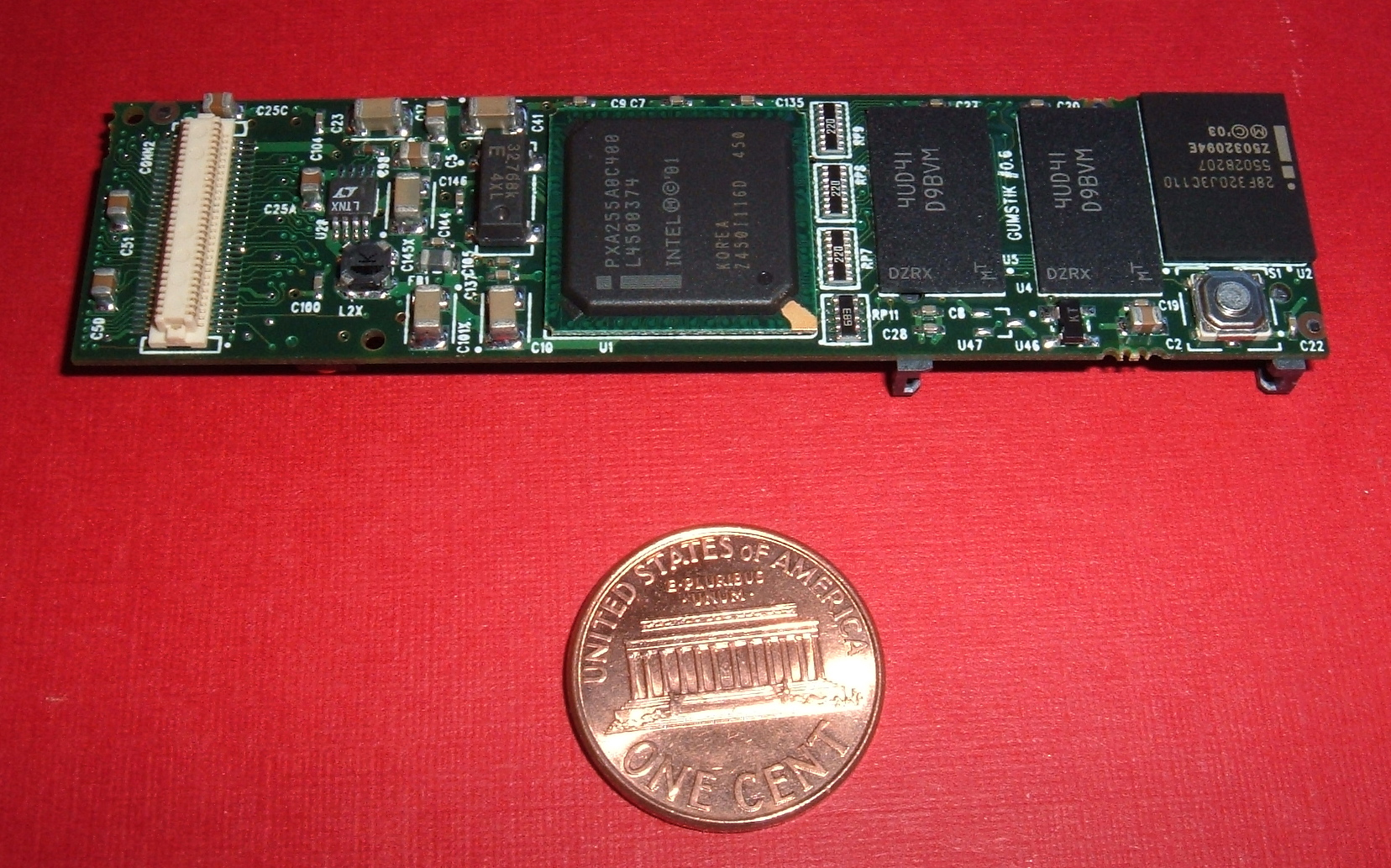 Gumstix computer. I took this picture of an artifact in my possession. --agr 21:03, 30 November 2005 (UTC)